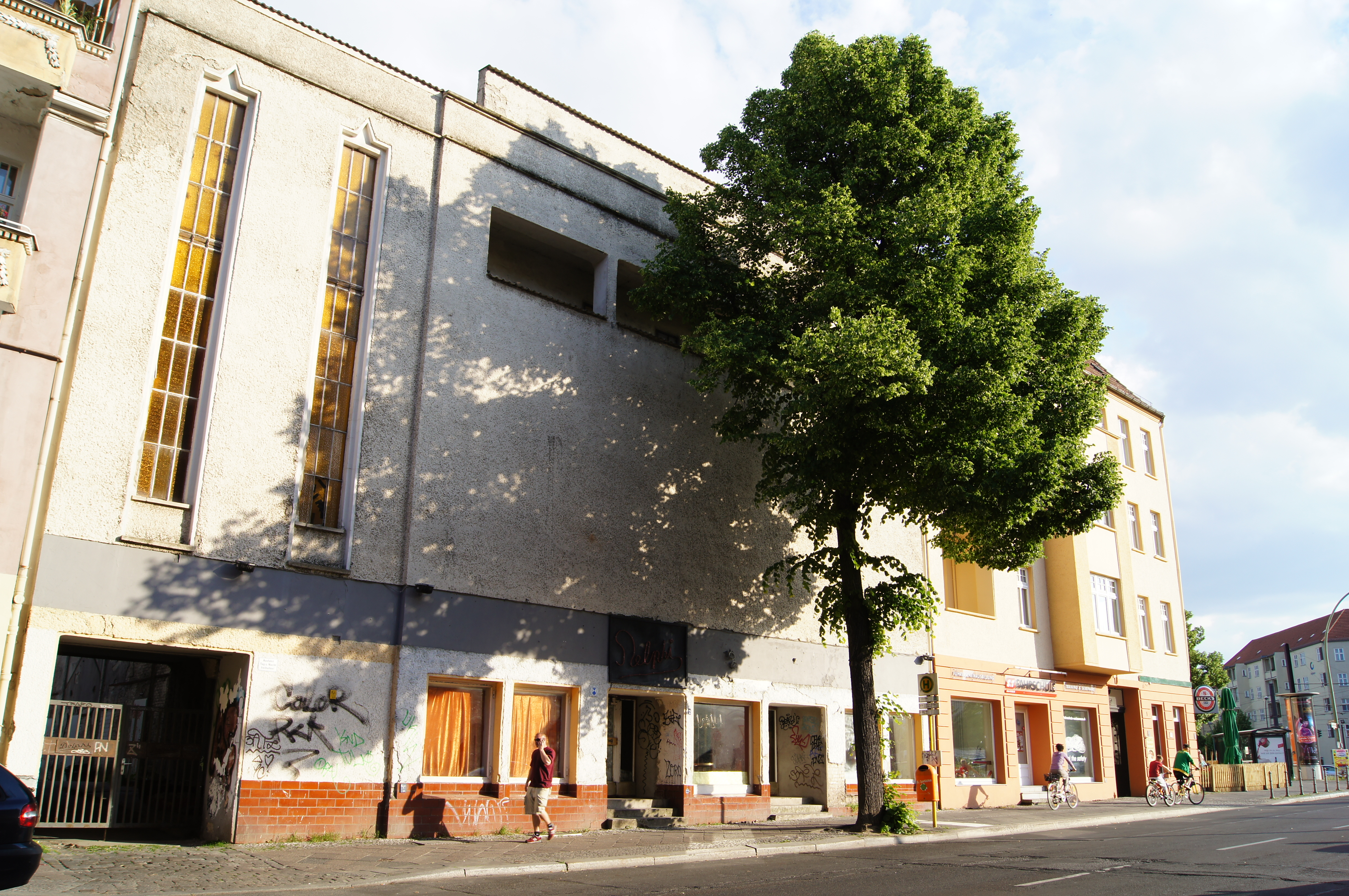 The former cinema "Delphi" in Berlin-Weissensee, Germany